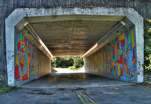 The Underpass